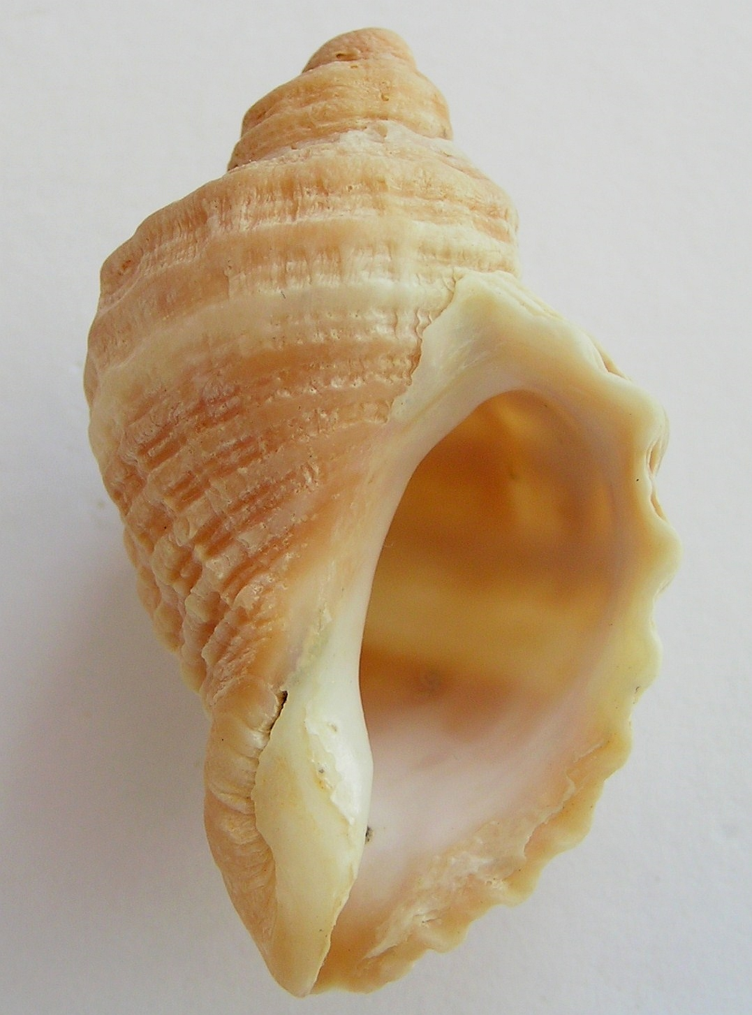 Nucella heyseana (Dunker, 1882) , a murex snail in the family Muricidae; Japan